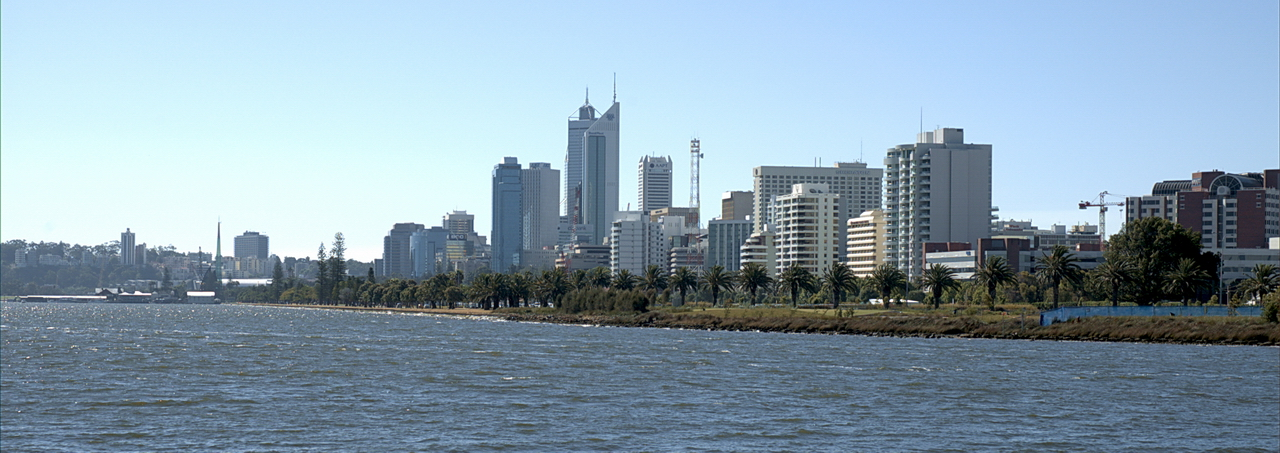 Perth Water, with Perth, Western Australia in the background. Photo taken from Heirisson Island .